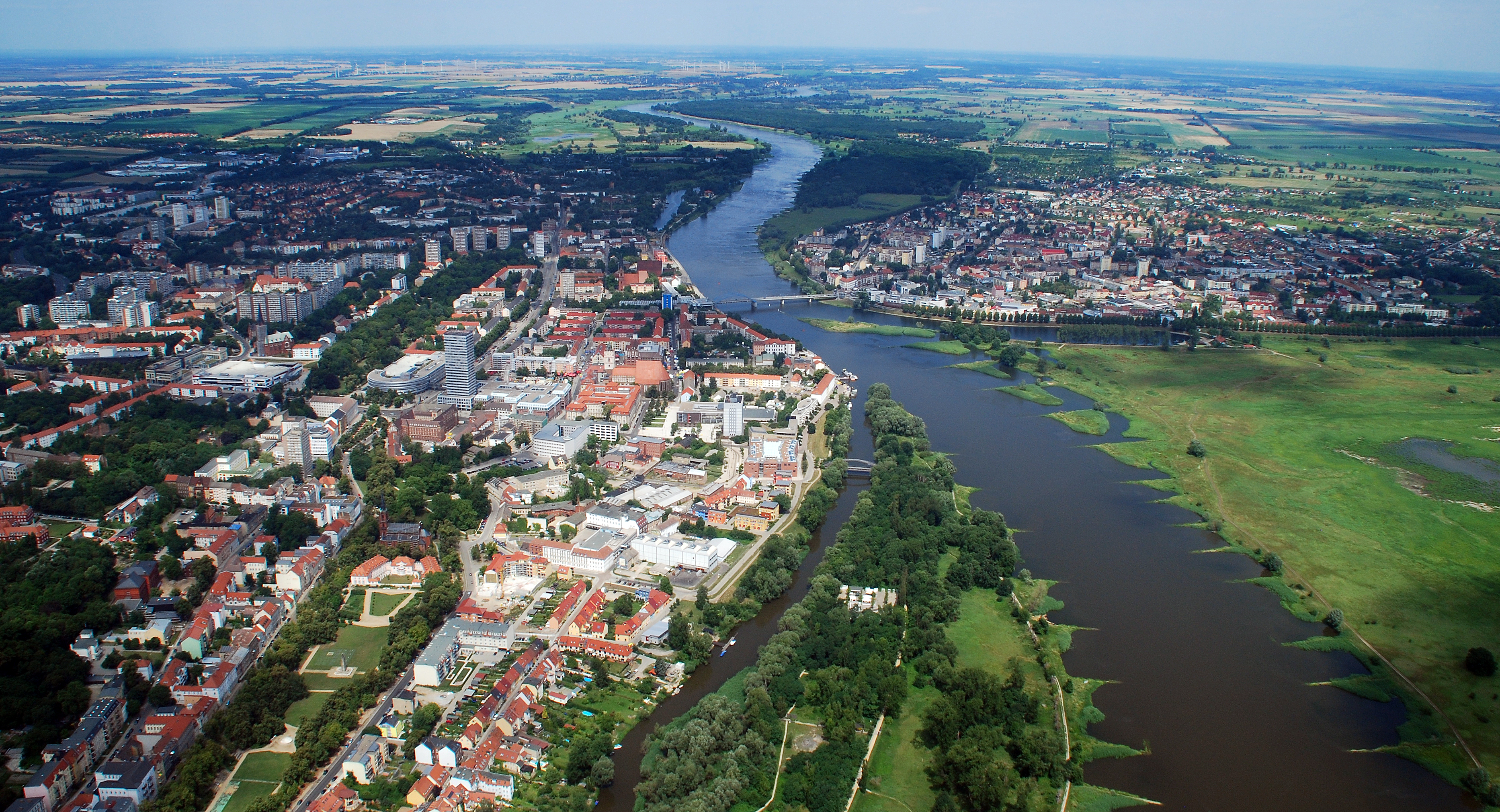 Aerial view of Frankfurt (Oder) and Słubice